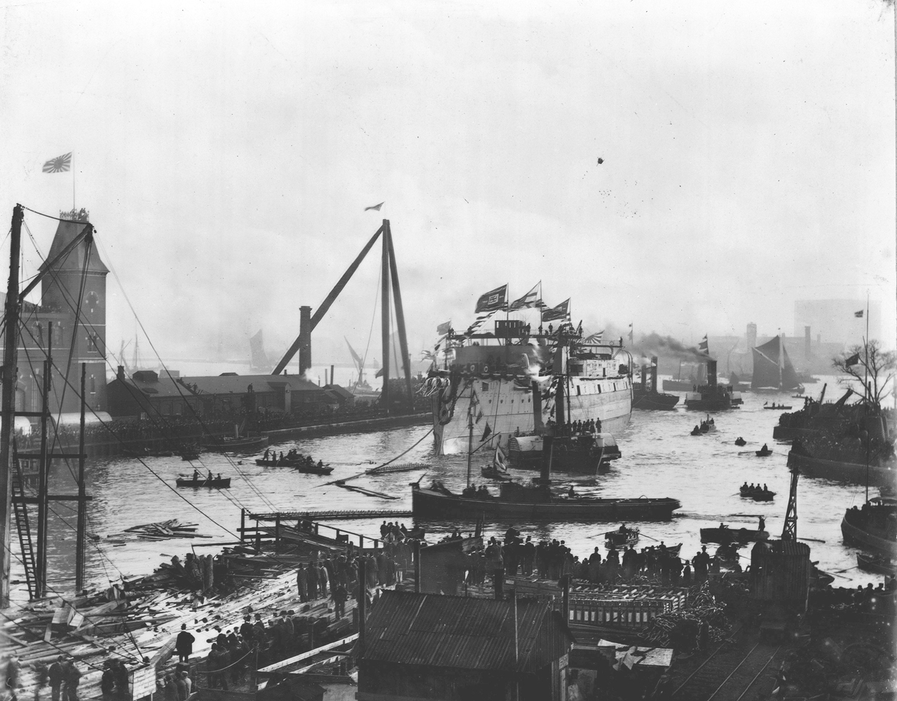 Photograph showing launching of Japanese battleship Shikshima, Thames Ironworks, Blackwall.